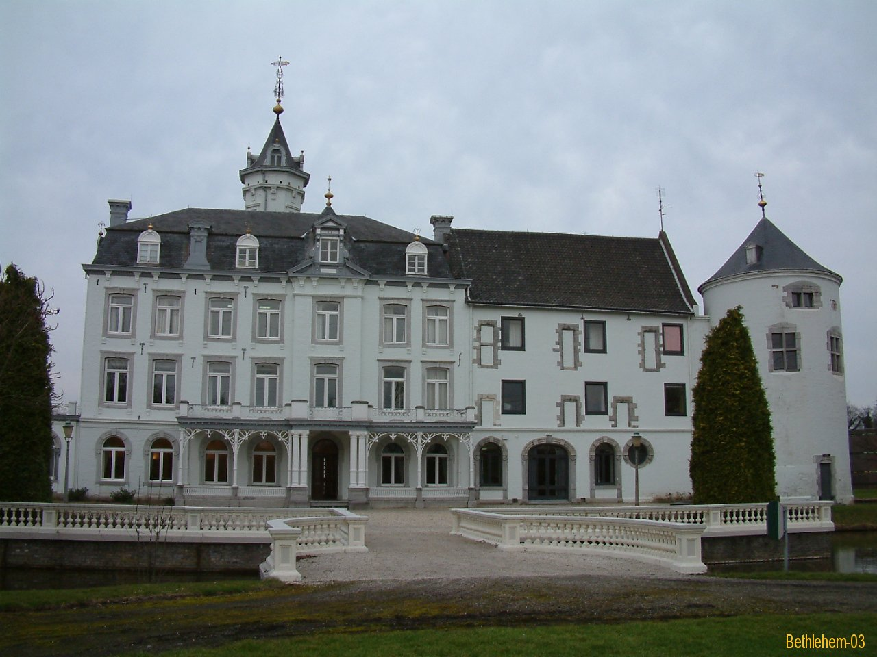 Description Kasteel BethlehemSource Own workAuthor PivosPermission(Reusing this file) Licentie verstrekt P. Vossen Kasteel Bethlehem